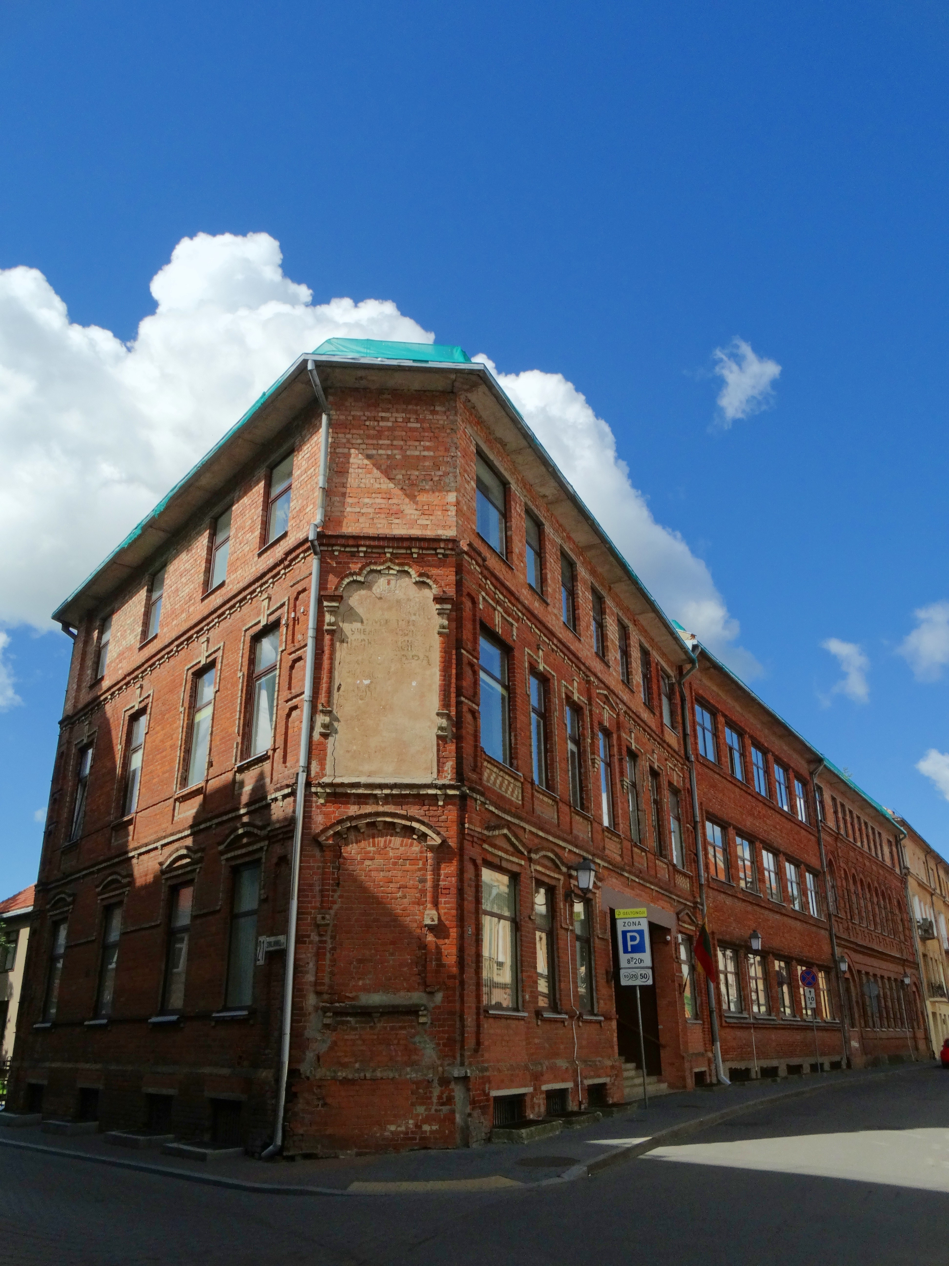 Music school No.1, former Jewish orphans house, Kaunas, Lithuania